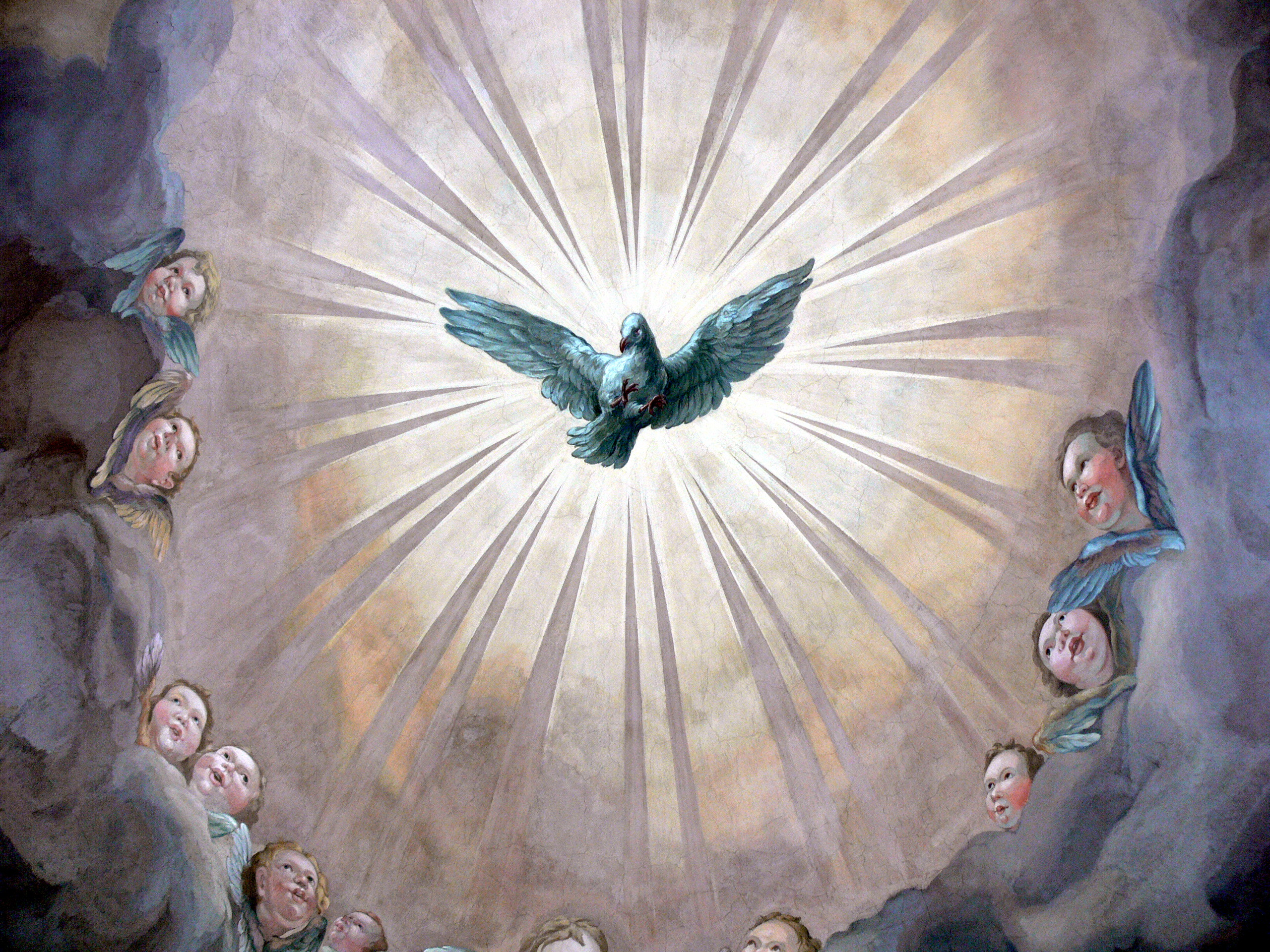 Karlskirche, Vienna. Fresco by Johann Michael Rottmayr ( 1714 ): Dove ( Holy Spirit )- as part of the Holy Trinity.